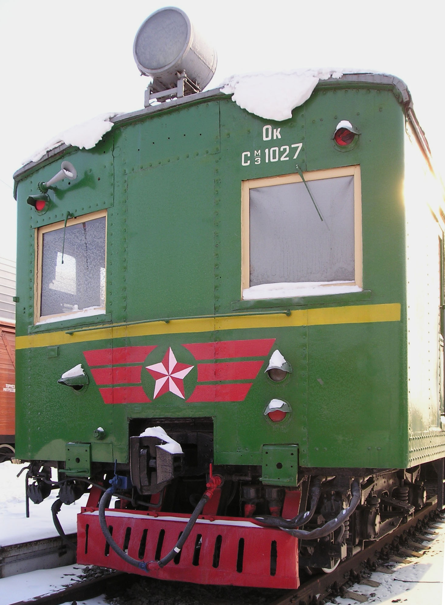 Electric train Sm3